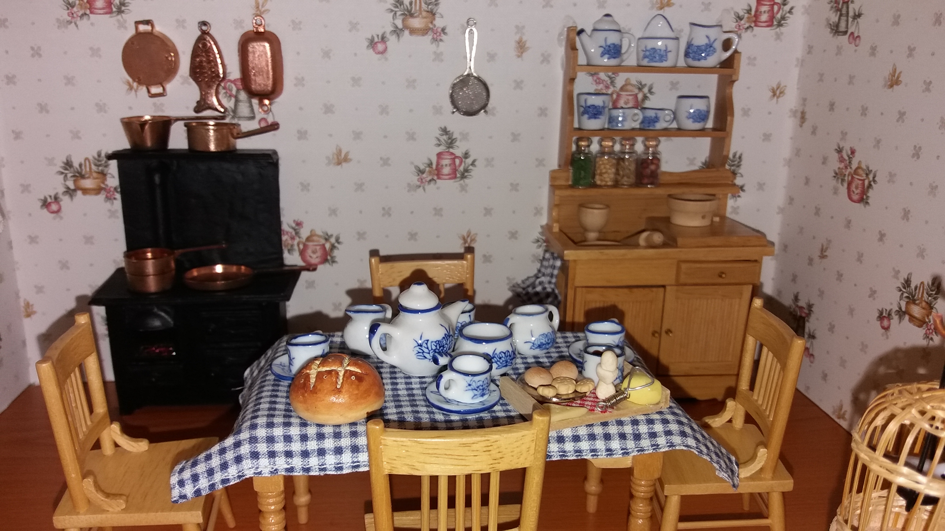 Dollhouse, kitchen, 2015.